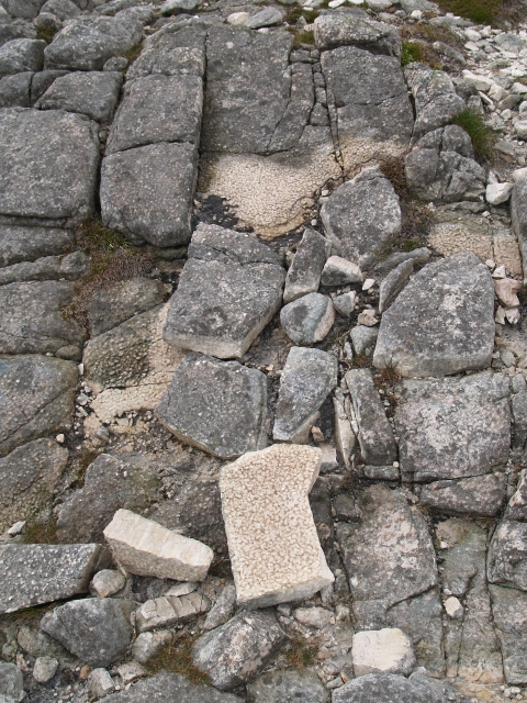 Pipe rock, SE ridge, Maol Chean-dearg. The recently broken slab of rock shows the typical rugosities of a colony of seaworms from the Cambrian era.